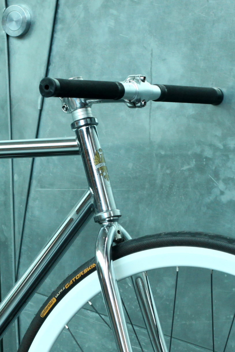 Bianchi Pista, polished finish. Seen at Federation Square, Melbourne. 30.08.2009